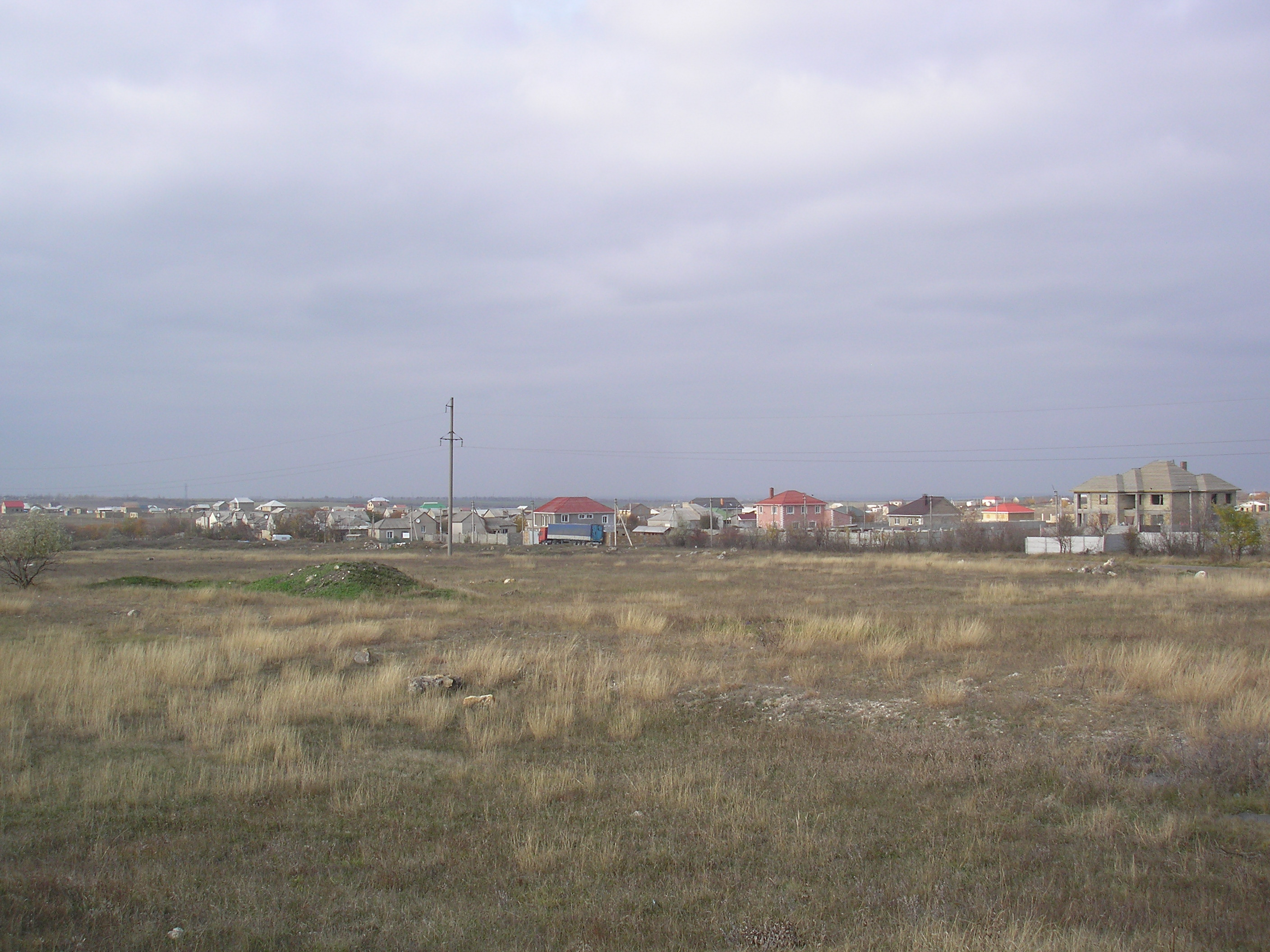 Settlement Aykavan, Simferopol district, Crimea